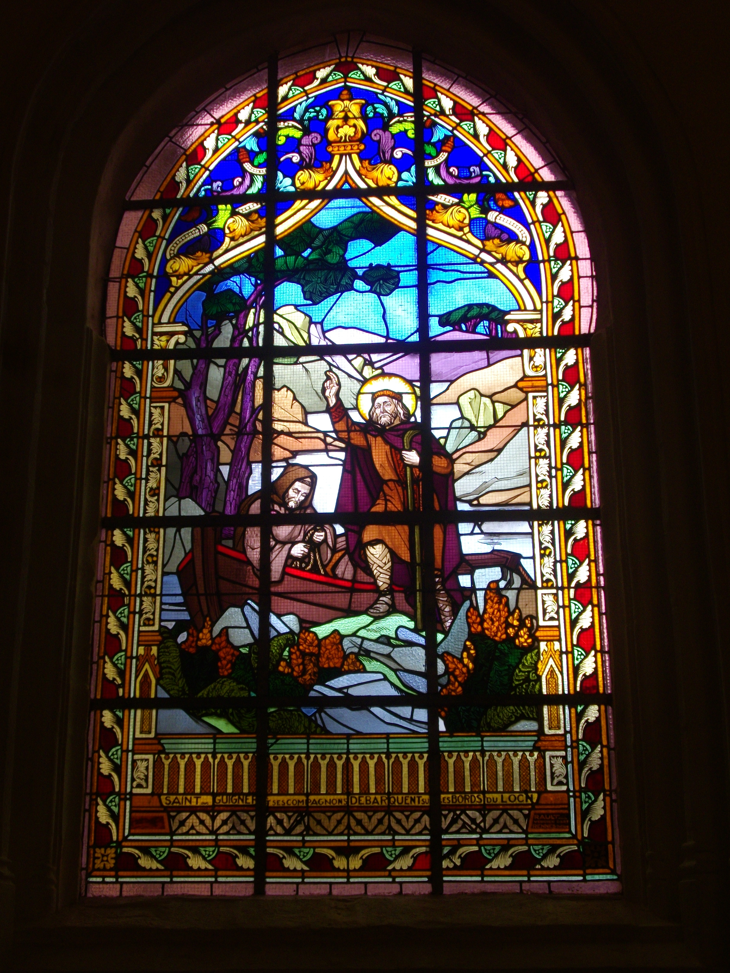 Saint Guigner church of Pluvigner (Morbihan, France). Stained glass window : "Saint Gwinear and his companions land on the shores of Auray River" .